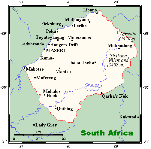 A map showing Lesotho's cities and selected towns.